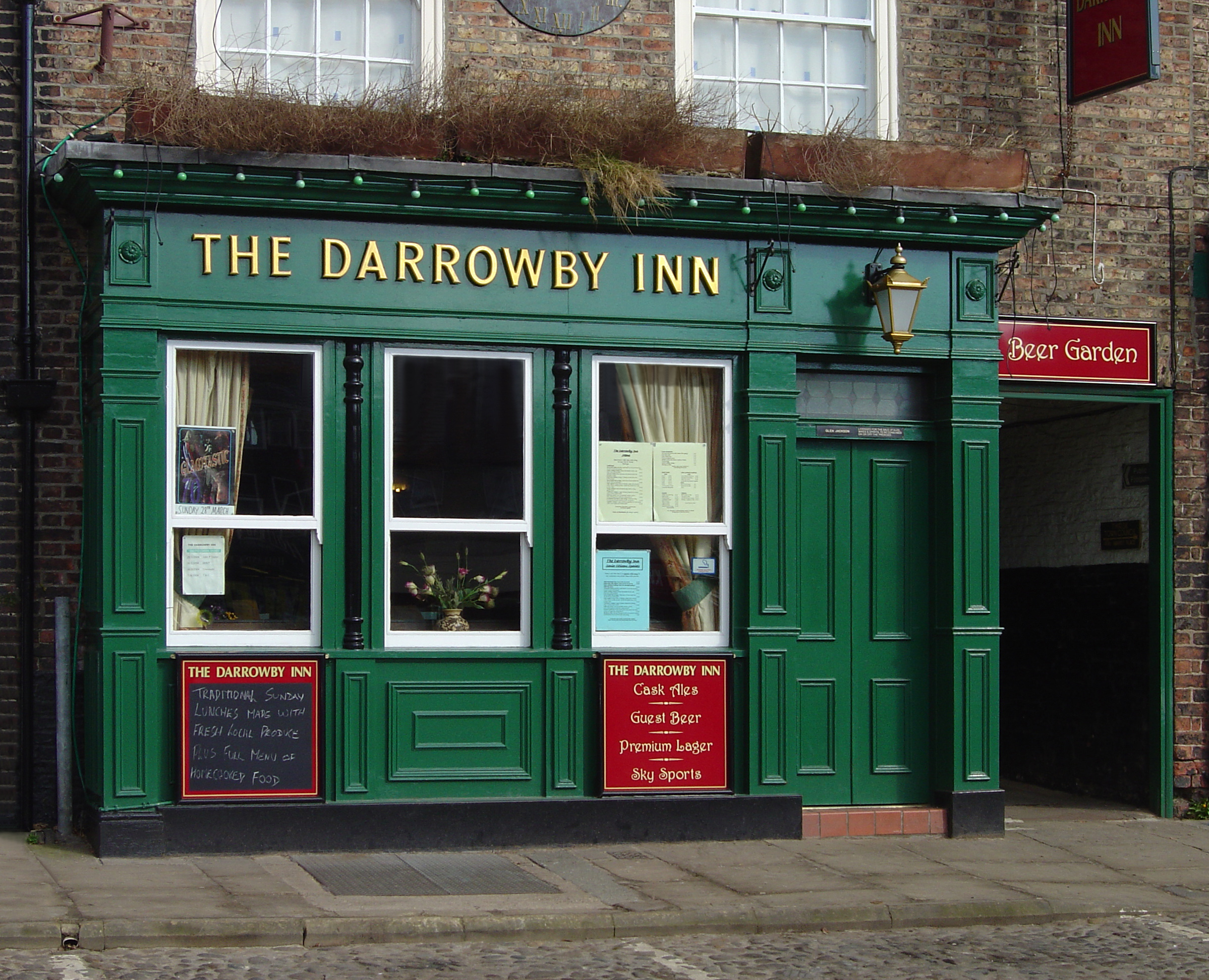 The Darrowby Inn, Thirsk.